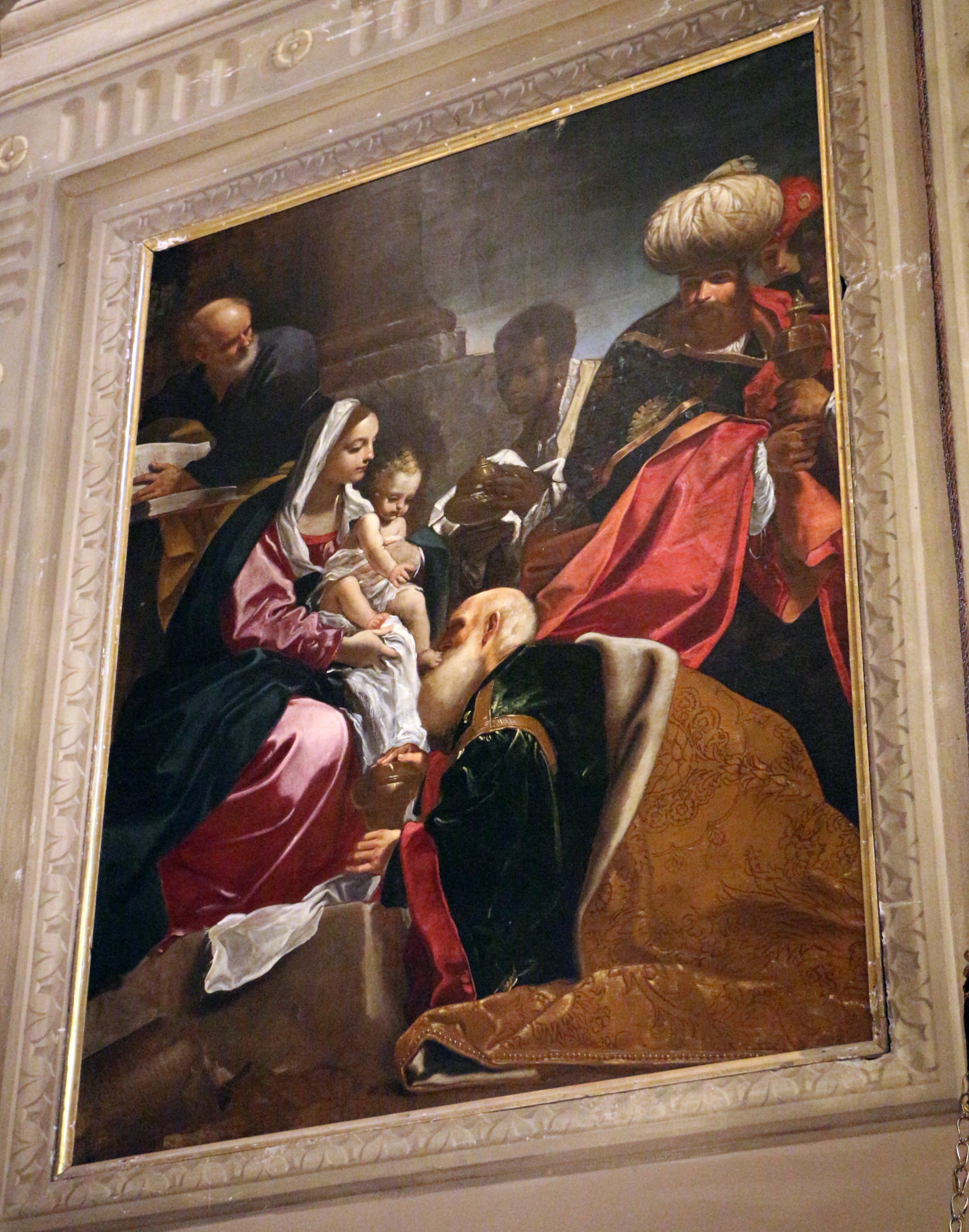 San Paolo Decollato (Bologna)